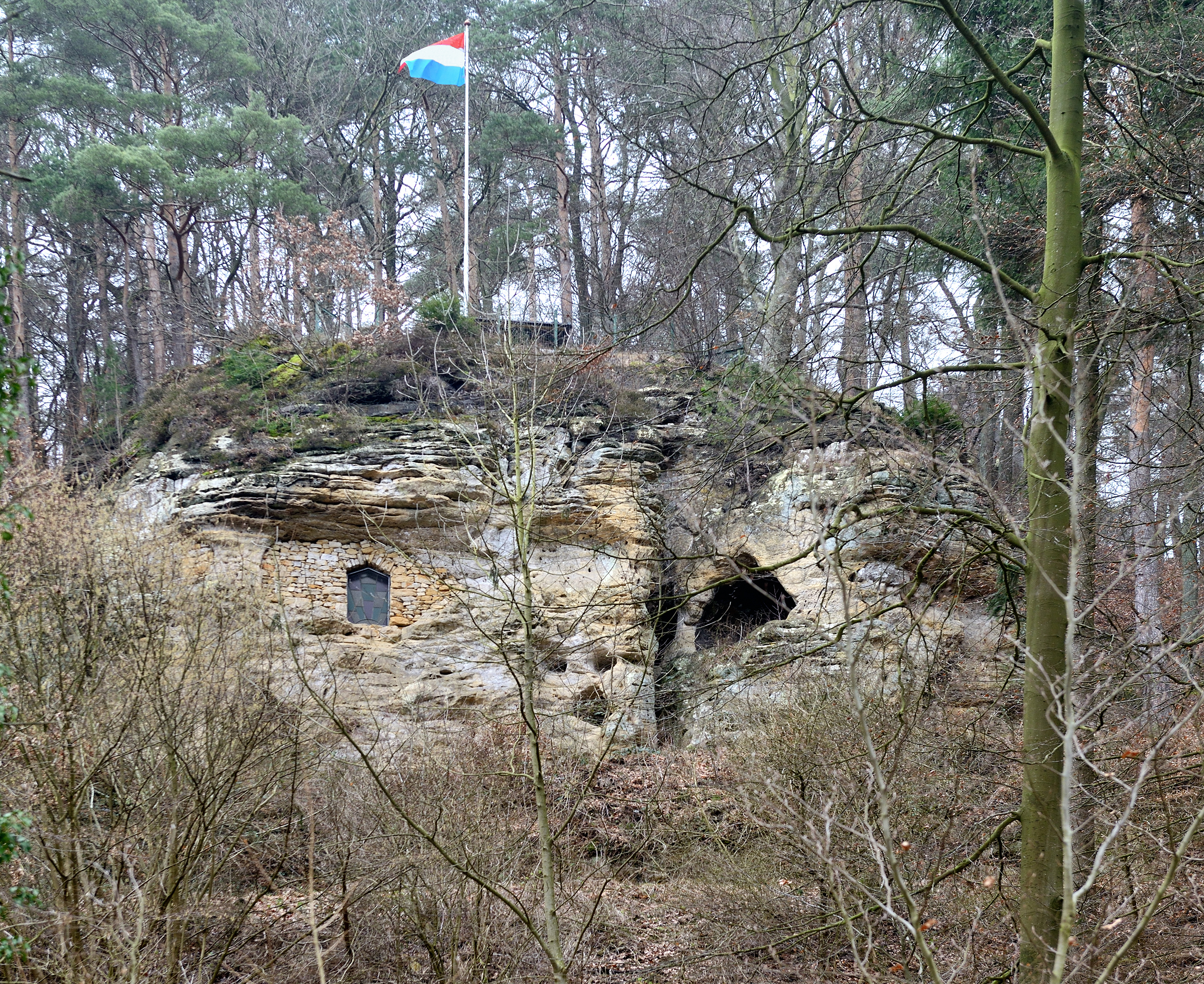 The so-called Fautelfiels at Lorentzweiler, Luxembourg.